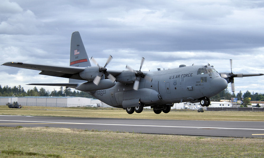 C-130 of the 314th Operations Group taking off at Little Rock AFB, Arkansas